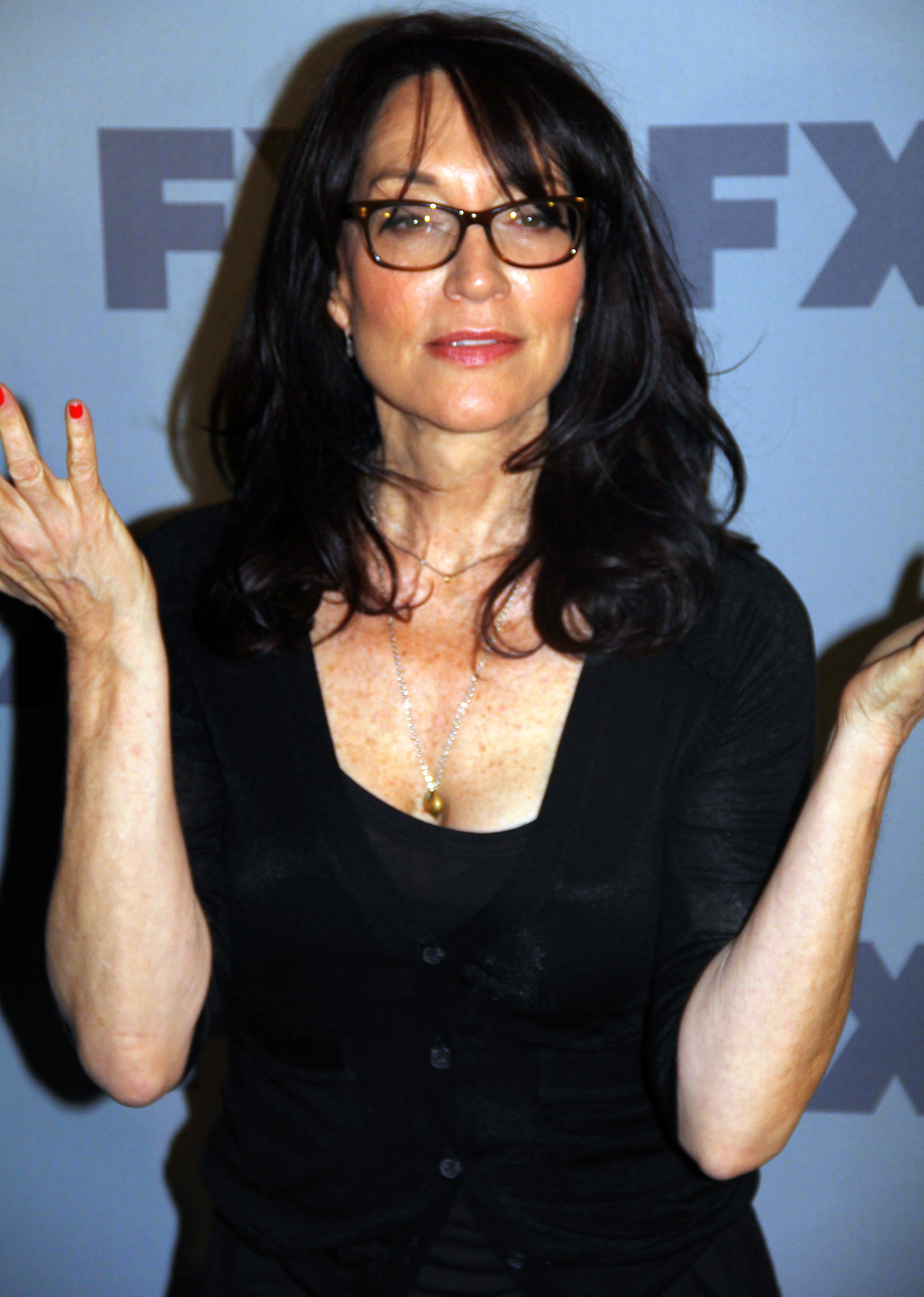 Katey Sagal at the 2012 FX Ad Sales Upfront.